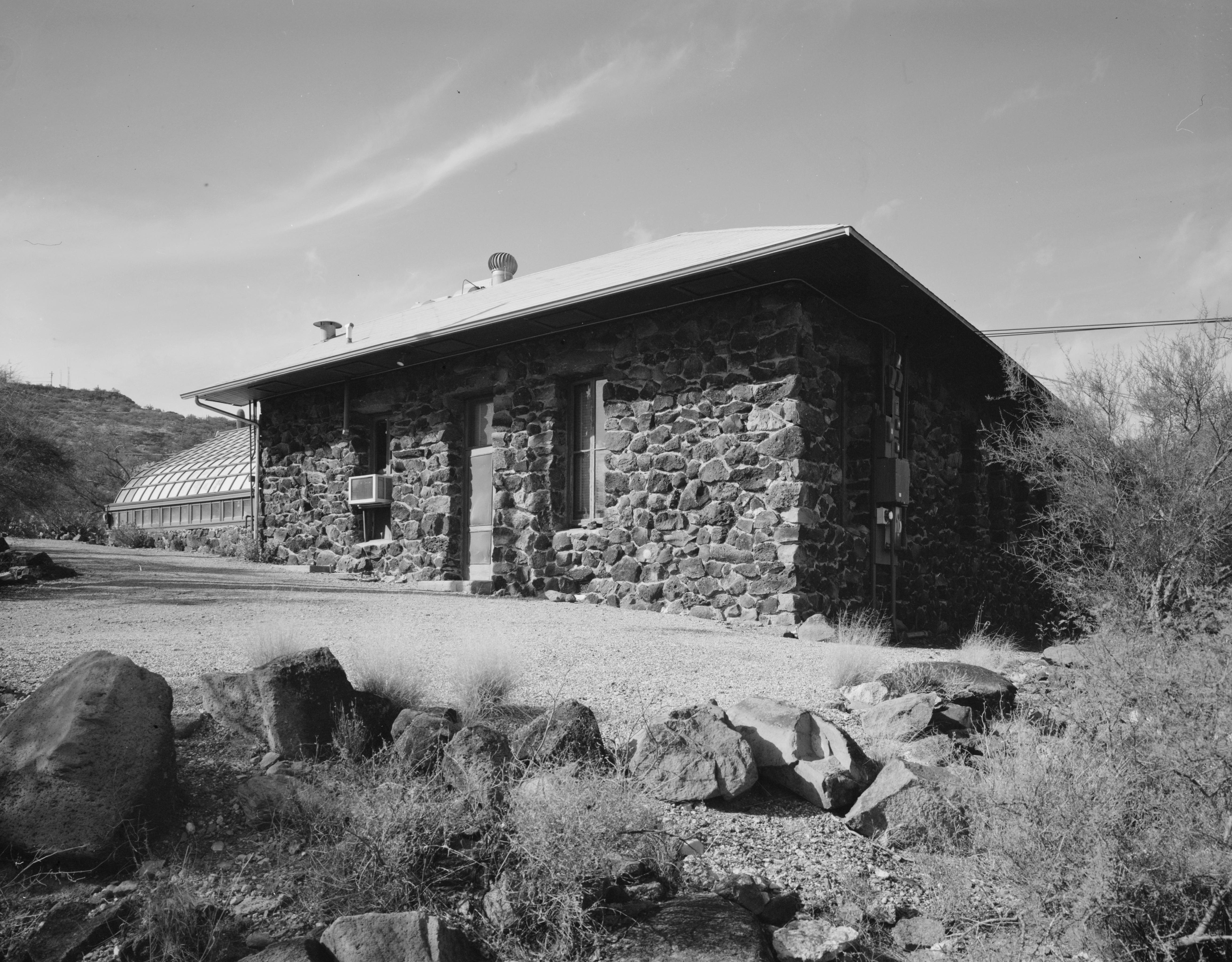 Northeastern wing of the main building at the Desert Botanical Laboratory — in the Sonoran Desert, southern Arizona. Located on Tumamoc Hill, off W. Anklam Road west of Tucson, in Pima County, Arizona, United States. The stone laboratory building was built in 1903, and has been designated a National Historic Landmark of the United States. Image courtesy of Historic American Buildings Survey—HABS.